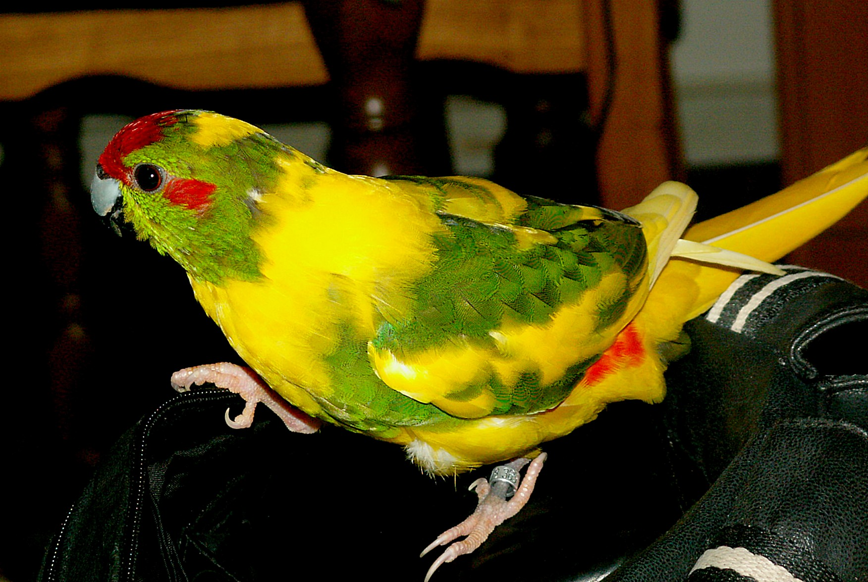 Looks like a piebald Red-crowned Parakeet (Cyanoramphus novaezelandiae) - a cross between a wild green one and a yellow colour mutant one. Translation from the german: red-fronted parakeet, cock, pied